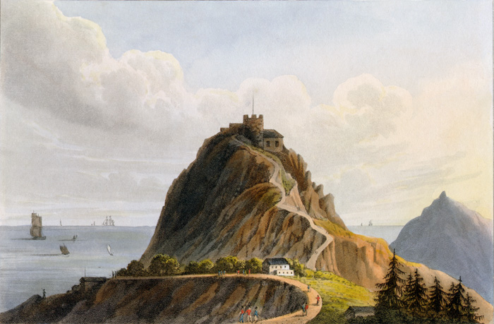 Wathen, T.E. A Series of Views Illustrative of the Island of St. Helena. Clay, London, 1821. Size: Quarto. Text: Advertisement (1 leaf, verso with 5 lines of text and a wood engraving of the Imperial Order of the Legion of Honour): Descriptive Account (p. 3 to 7): Explanatory List of the plates (p. 8 with imprint J. Johnson, Typ. at foot). Plates: Uncoloured lithograph of Mr Wathen signed A. J. Oliver A.R.A. Pinxt; T. Bragg Sculpt; imprint Private Plate: Engraved title page: Nine coloured aquatints signed Drawn by James Wathen Esqr.; Arranged by E.W.; Engraved by I. Clark; imprint London, 1821, Published for the Proprietor, by T. Clay, Ludgate Hill, Robt Jennings, Poultry, & Ino Major, Skinner Street.